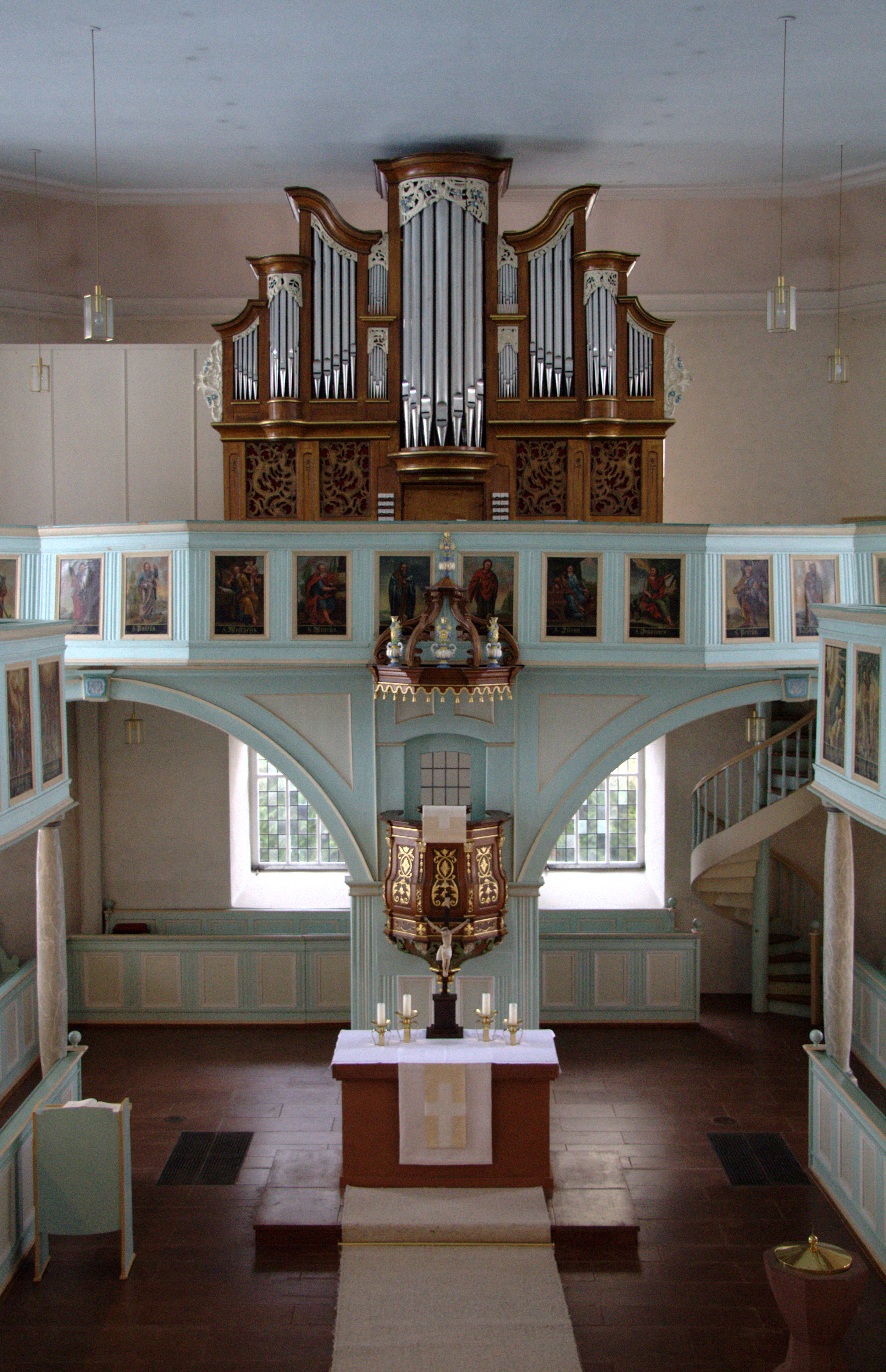 Protestant church "St. Gangolf" (Detail: Altar Pulpit Organ) in Bobenhausen II, Ulrichstein, Hesse, Germany